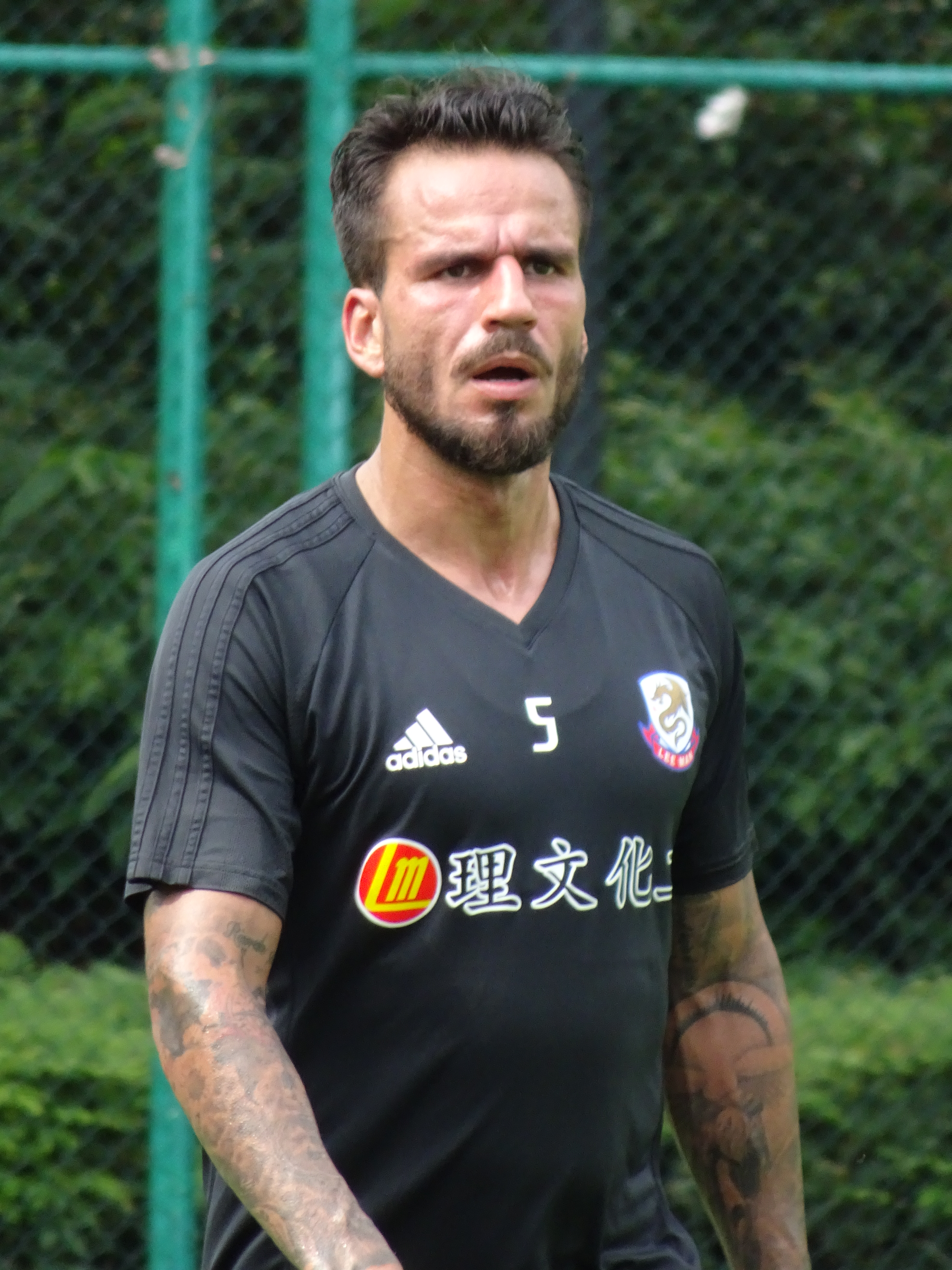 Francisco Javier González Muñoz (9 Aug 2018, friendly match, Pegasus vs Lee Man, Po Tsui Park)